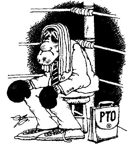 I am a co-author and I hereby grant license to all. (PraeceptorIP (talk) 19:09, 23 December 2008 (UTC))